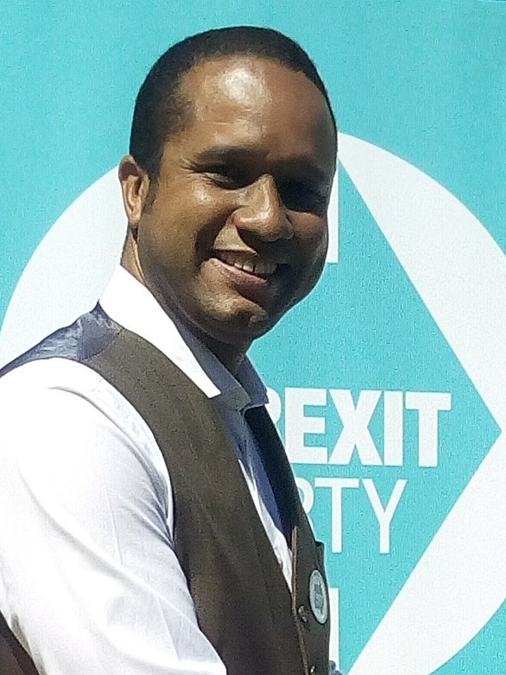 Louis Stedman-Bryce at a Brexit Party action day outside New Register House in Edinburgh. The image was taken on a smartphone and cropped respectively.